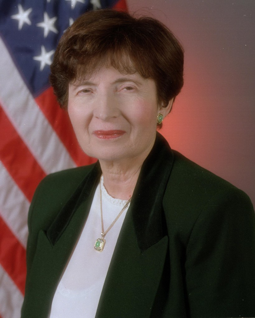 Portrait - 1998 - Faye G. Abdellah, Ed. D., RN Dean, Graduate School of Nursing (GSN), Uniformed Services University of the Health Sciences (USU) Civilian dress, Flag